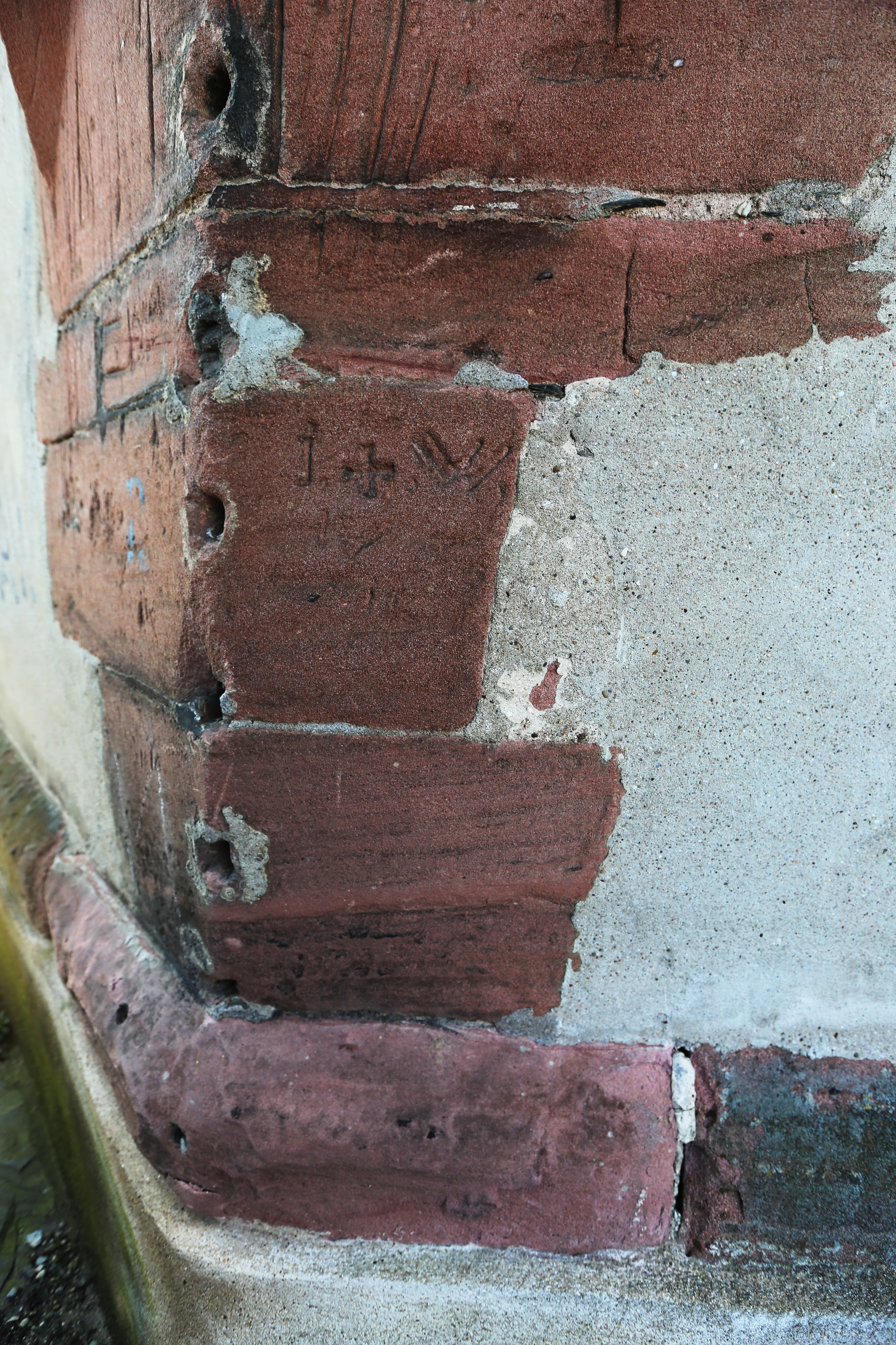 Stone cutter's mark on the old hospital chapel (1305) of Oberwesel, Germany